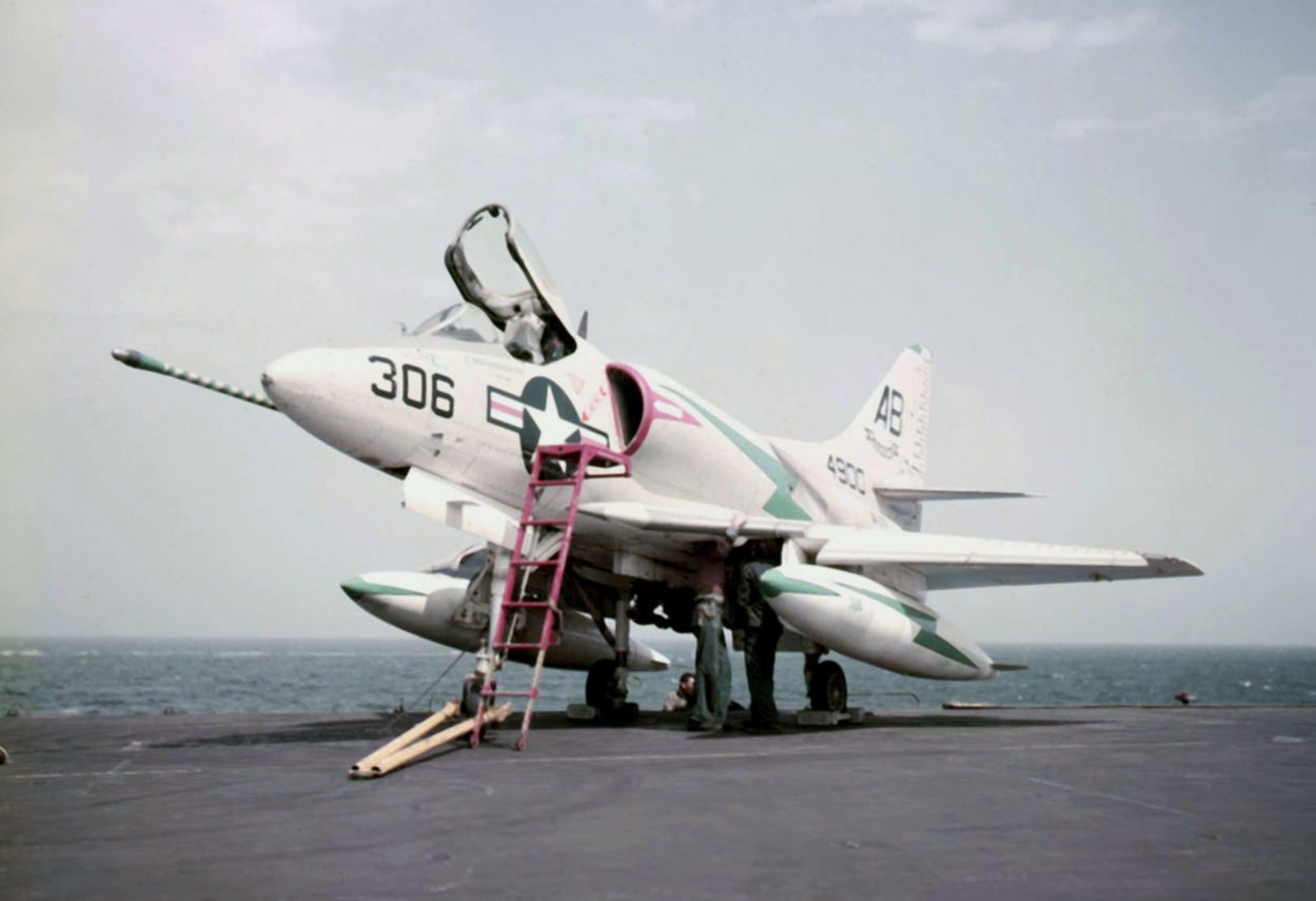 A U.S. Navy Douglas A4D-2 Skyhawk (BuNo 144900) from Attack Squadron VA-172 Blue Bolts on the flight deck of the aircraft carrier USS Franklin D. Roosevelt (CVA-42), in 1959.